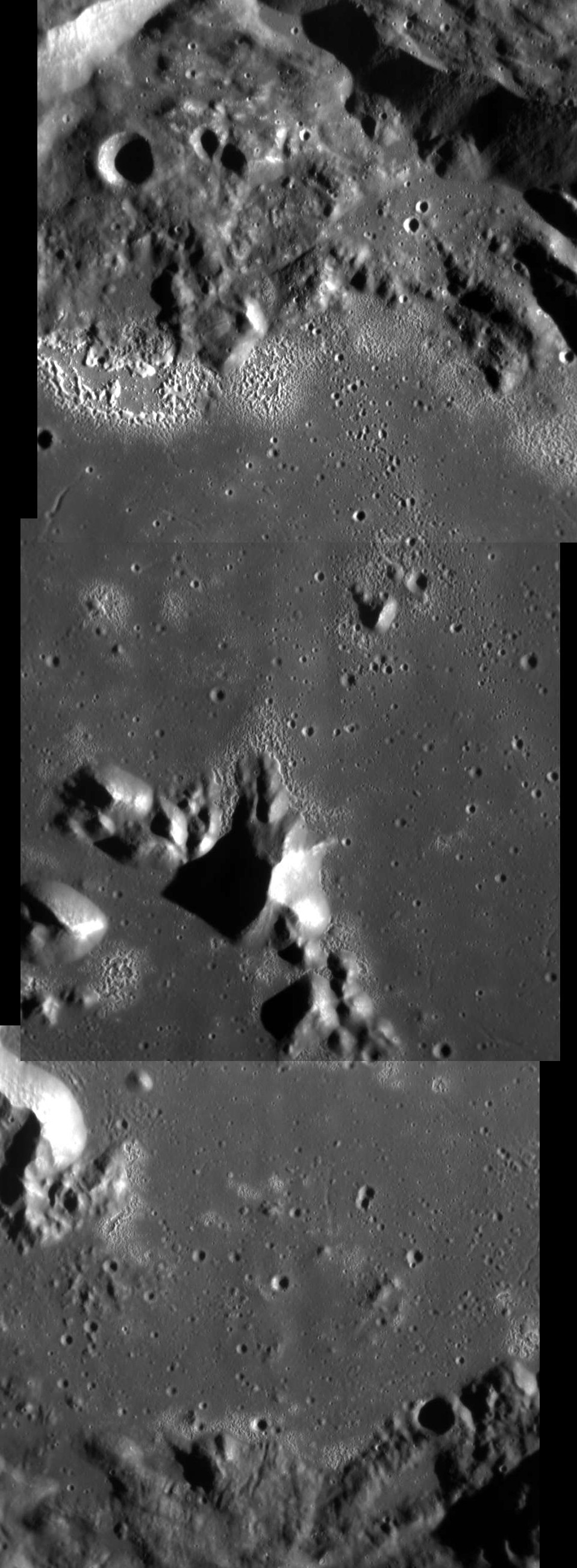 Interior of Seuss crater on Mercury. Mosaic of MESSENGER Narrow Angle Camera images. Approximate north is at top. Hollows are visible around the central peak complex and along the north rim. Source images are: EN1044778226M EN1044778235M EN1044778244M Statistics for the center image are: Emission Angle: 6.1 Incidence Angle: 73.3 Latitude: 7.7 Longitude: 33.3 Phase Angle: 79.4